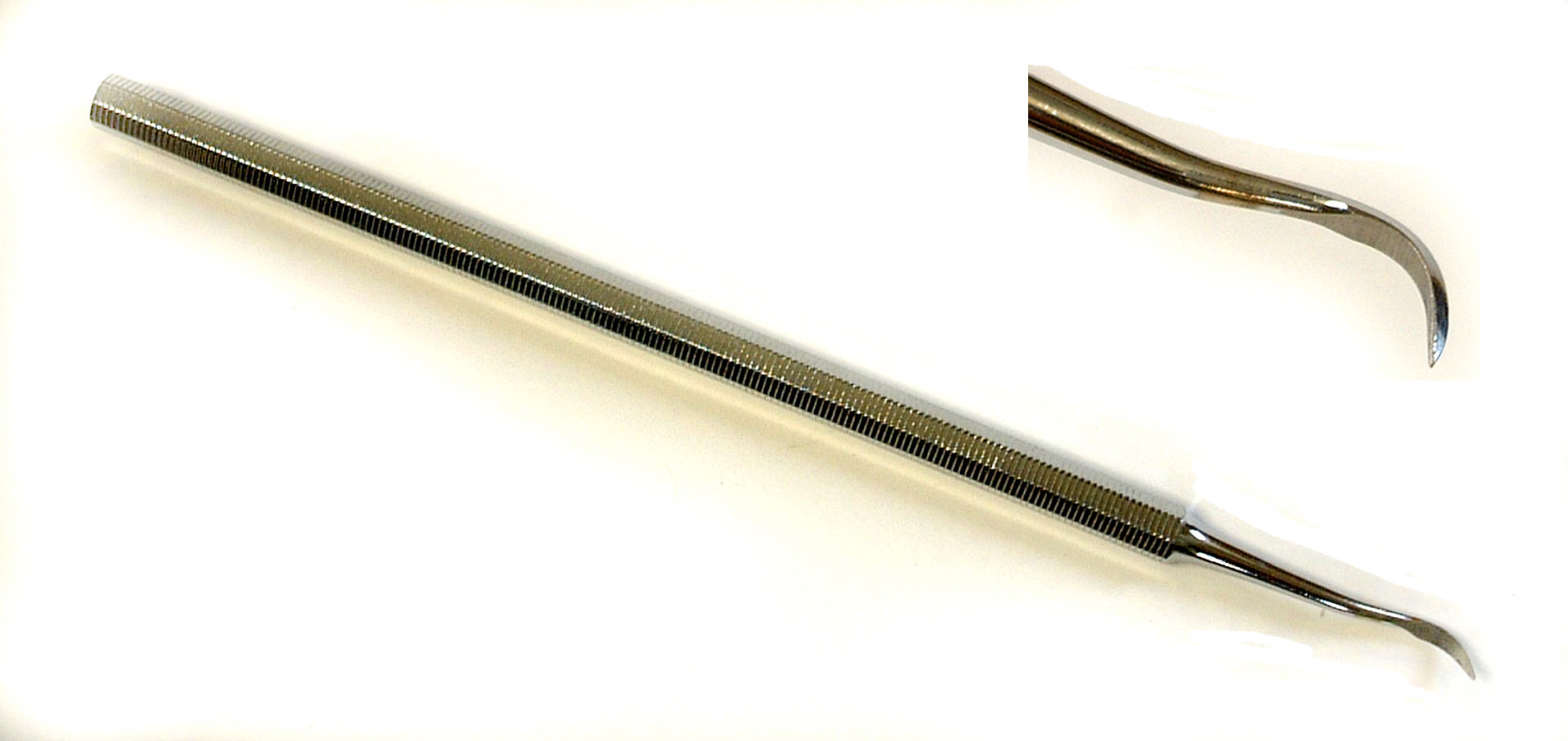 Dental Scaler. Photo taken in Tokyo Japan.